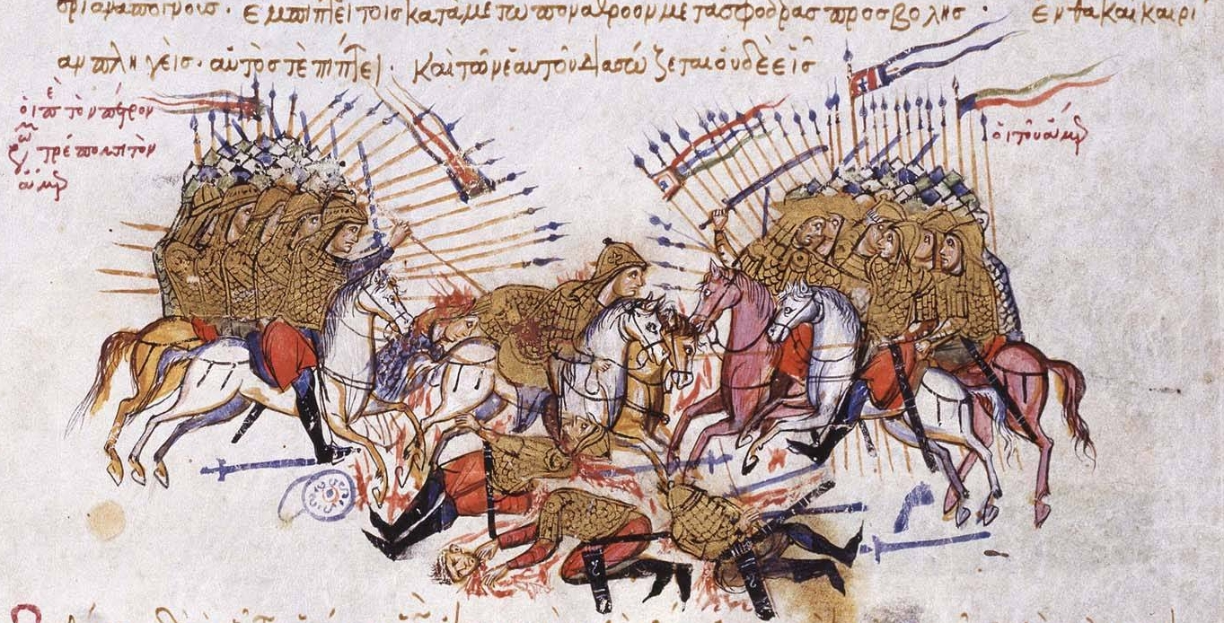 Clash between Byzantines and Arabs at the Battle of Lalakaon (863) and defeat of Amer, the emir of Malatya